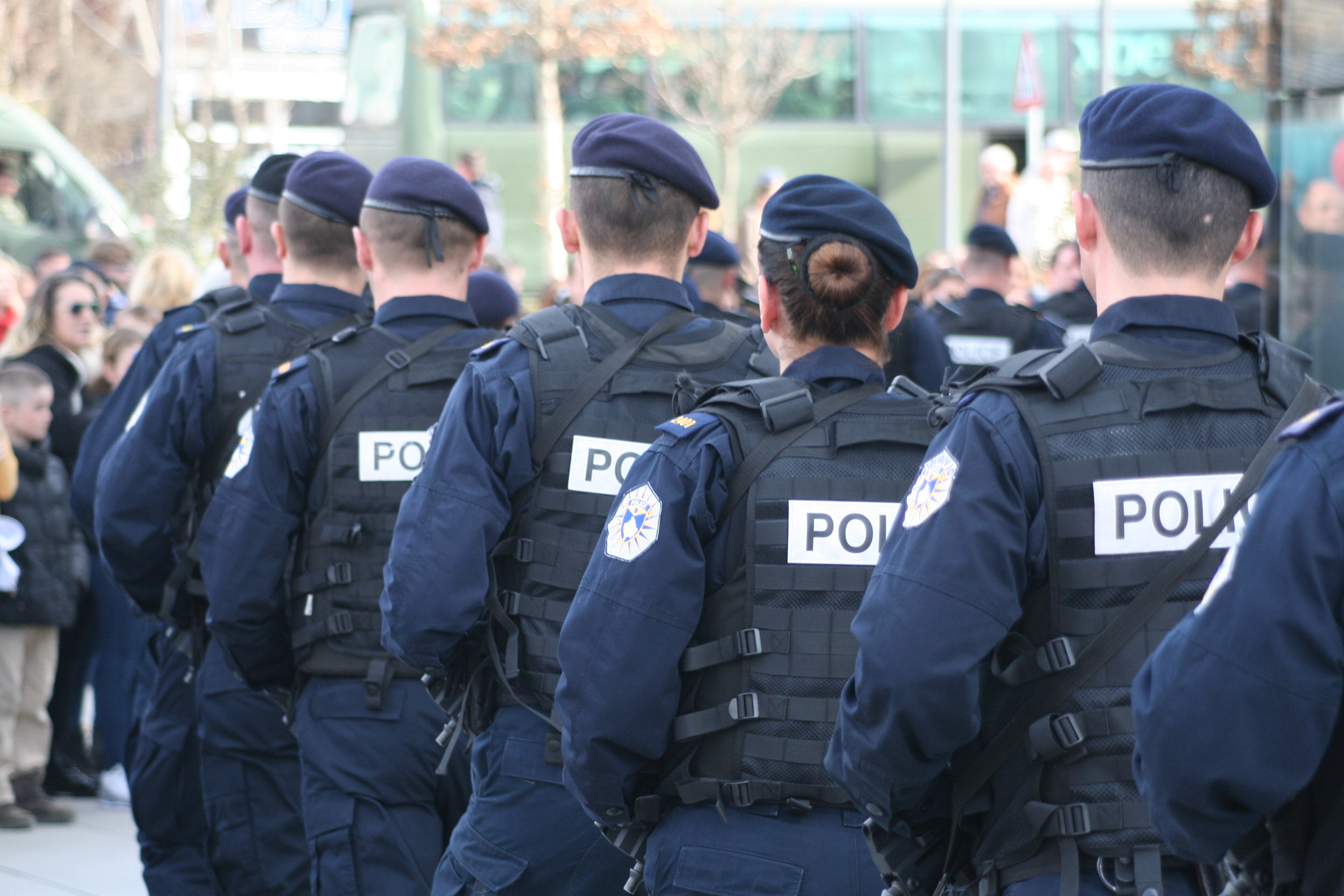 Units of the Kosovo Armed Forces, Kosovo Police and Correctional Services paraded in "Zahir Pjaziti" square for the sixth anniversary of the declaration of independence of Kosovo.